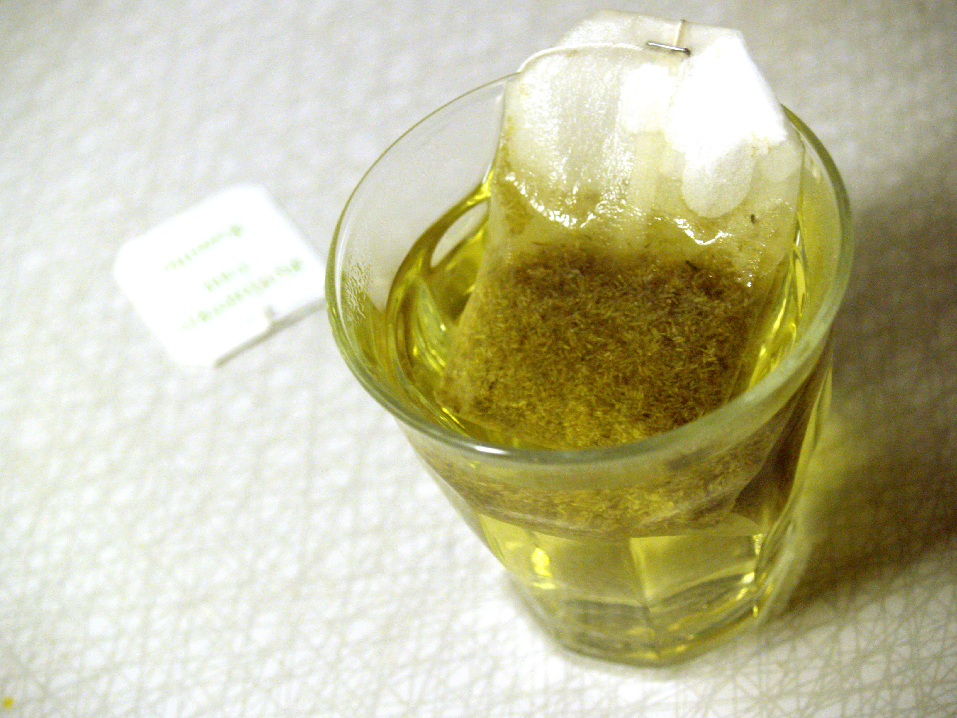 A cup of chamomile tea